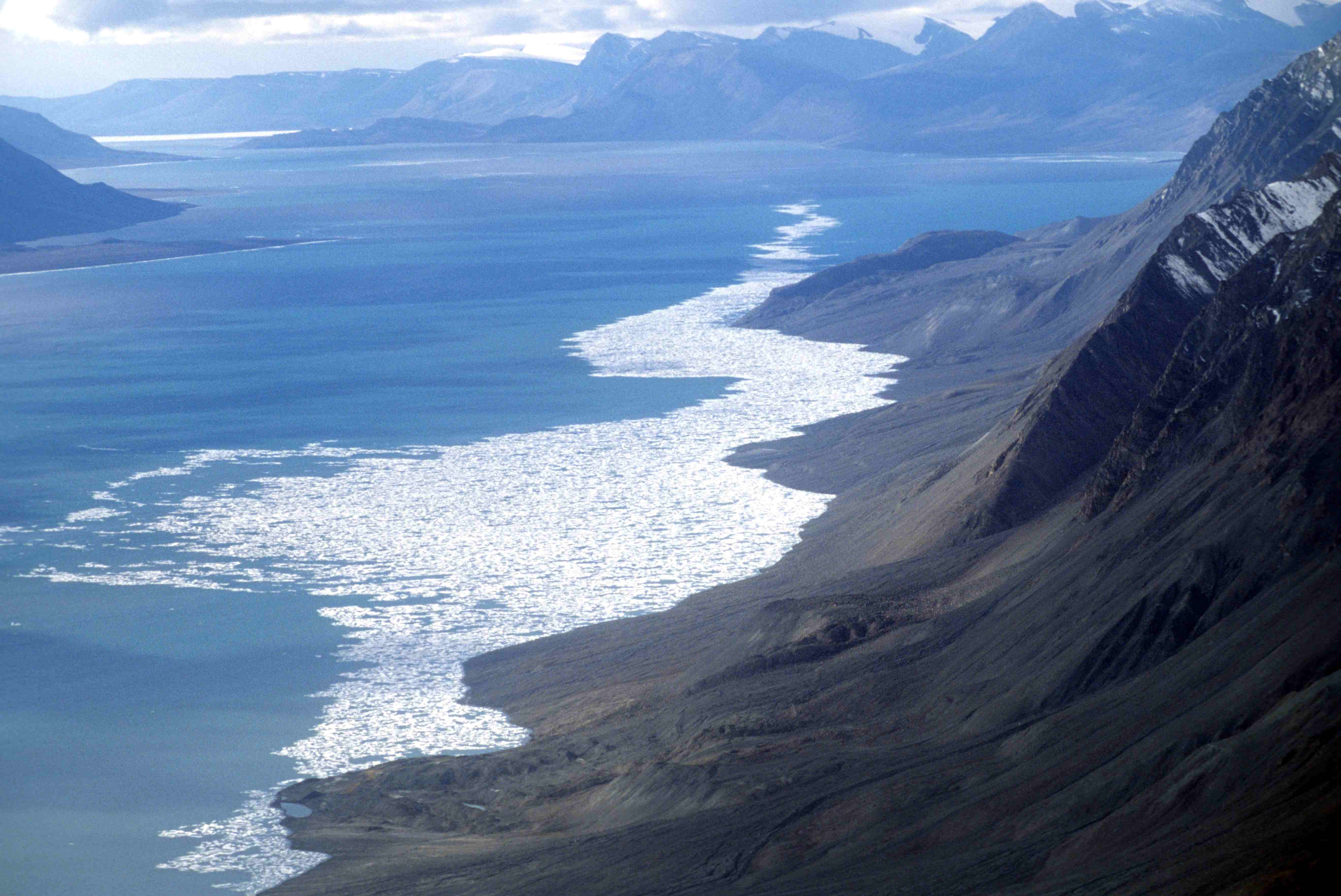 Tanquary Fiord (view to the South); Ellesmere Island, Nunavut, Canada